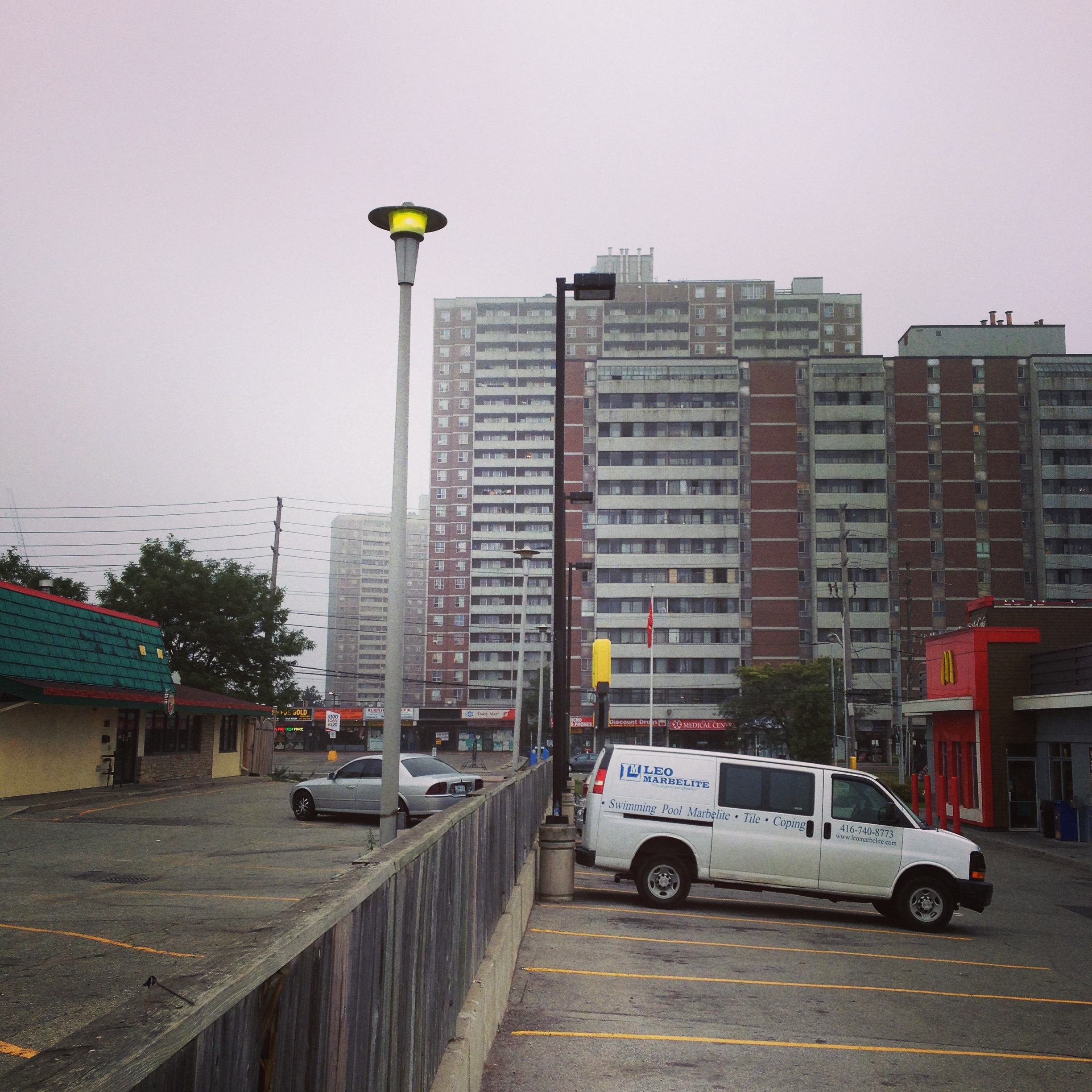 Finch Ave Highrises in Humbermeded near Weston Road in Toronto (North York)